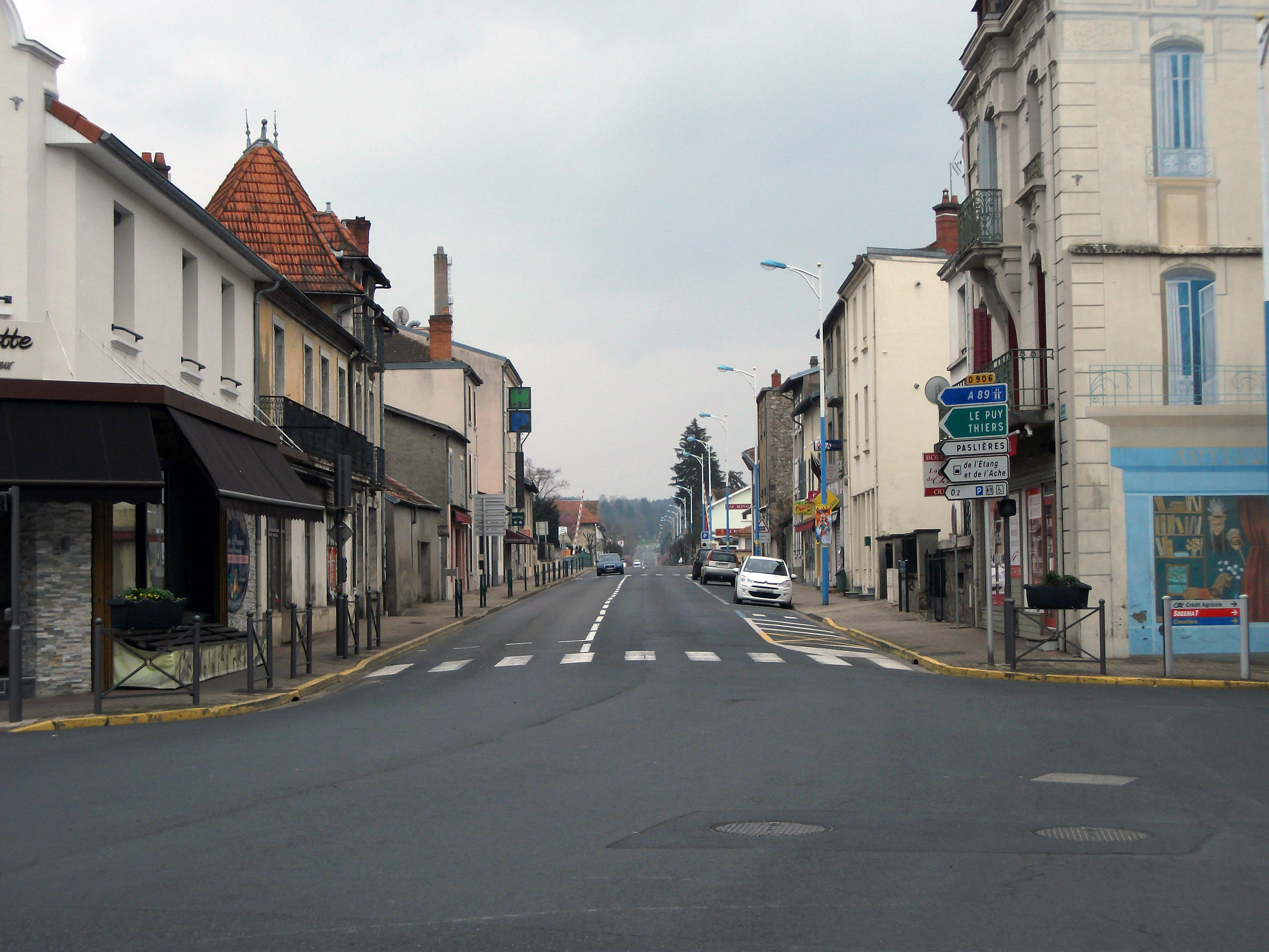 Departmental road 906 direction A89 autoroute, Le Puy-en-Velay, Thiers, Paslières, de l'Étang et de l'Ache industrial area, and at 200 m, parking, toilets, installation accessible for handicapped (disabled) (manuf.: Girod 2014) — Puy-Guillaume, Puy-de-Dôme, Auvergne-Rhône-Alpes, France. [10360]